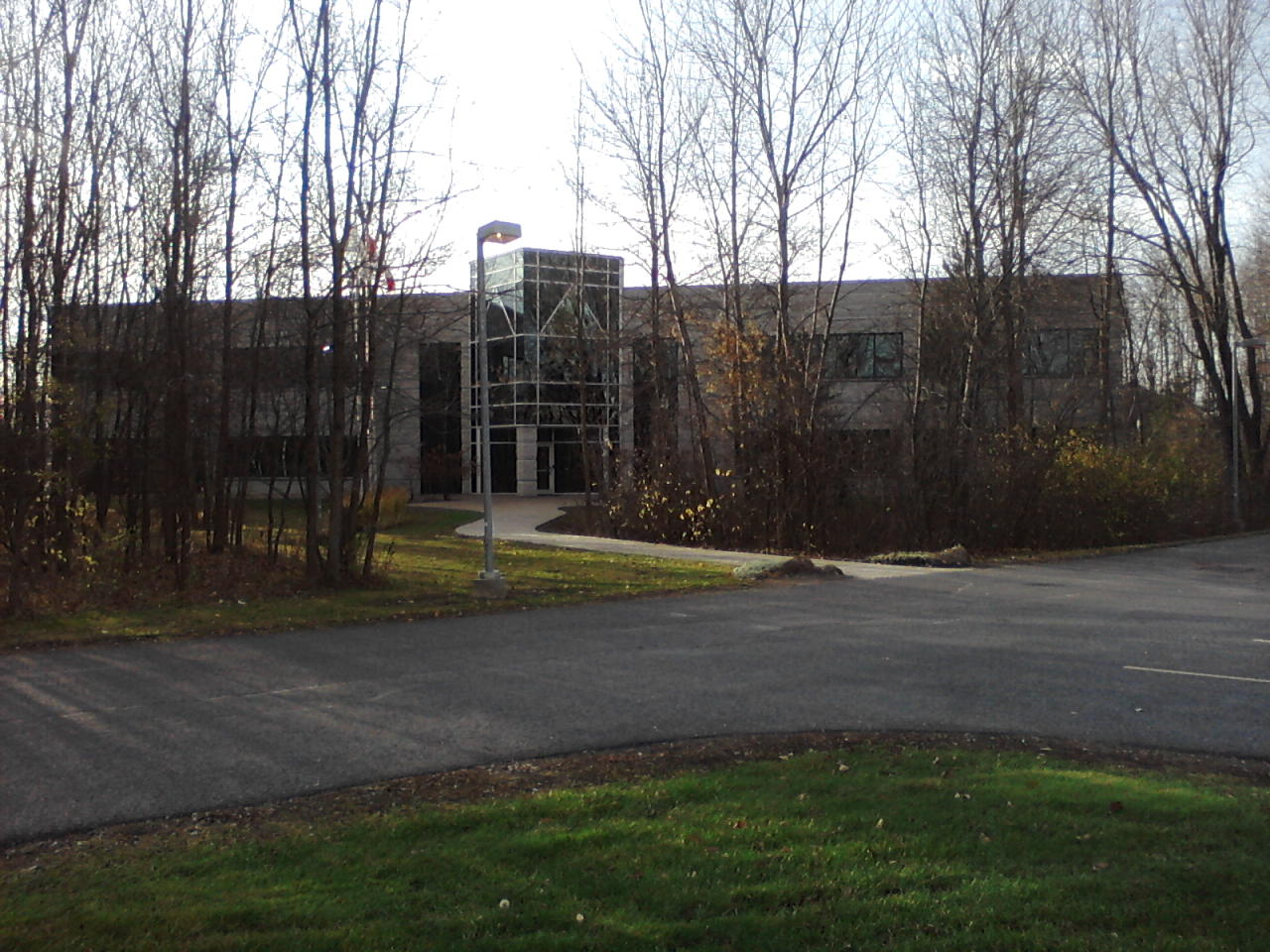 First Air airlines headquarters, Kanata, Ottawa, ON